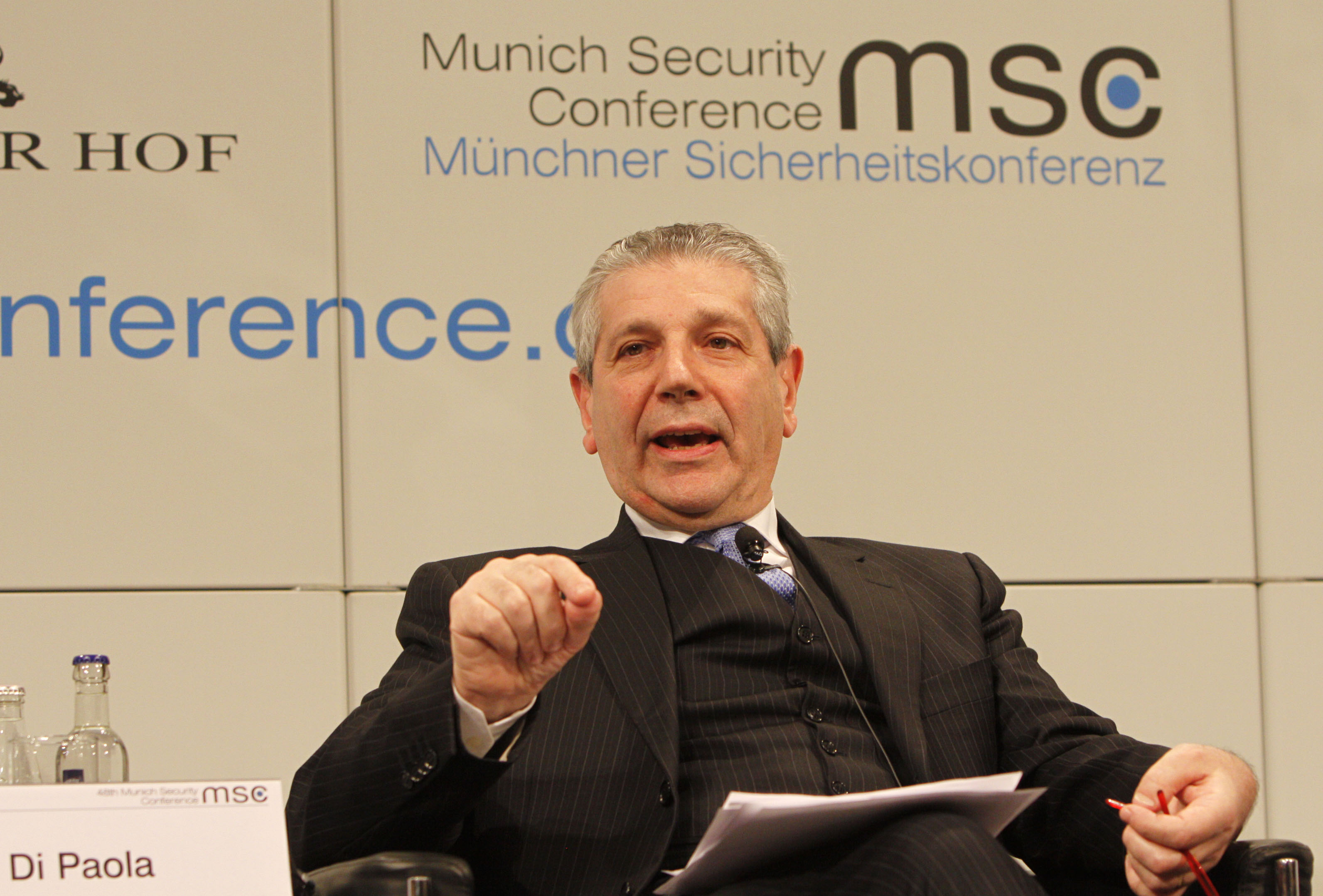 48th Munich Security Conference 2012: Giampaolo Di Paola, Minister of Defense, Italia.